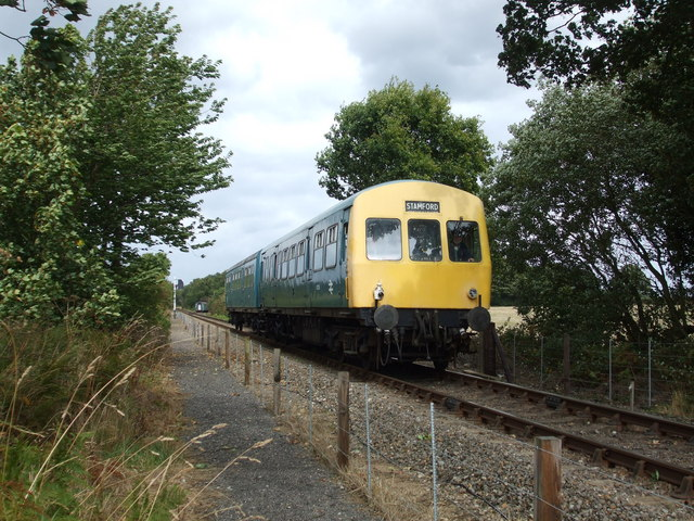 Class 101 DMU - 101681